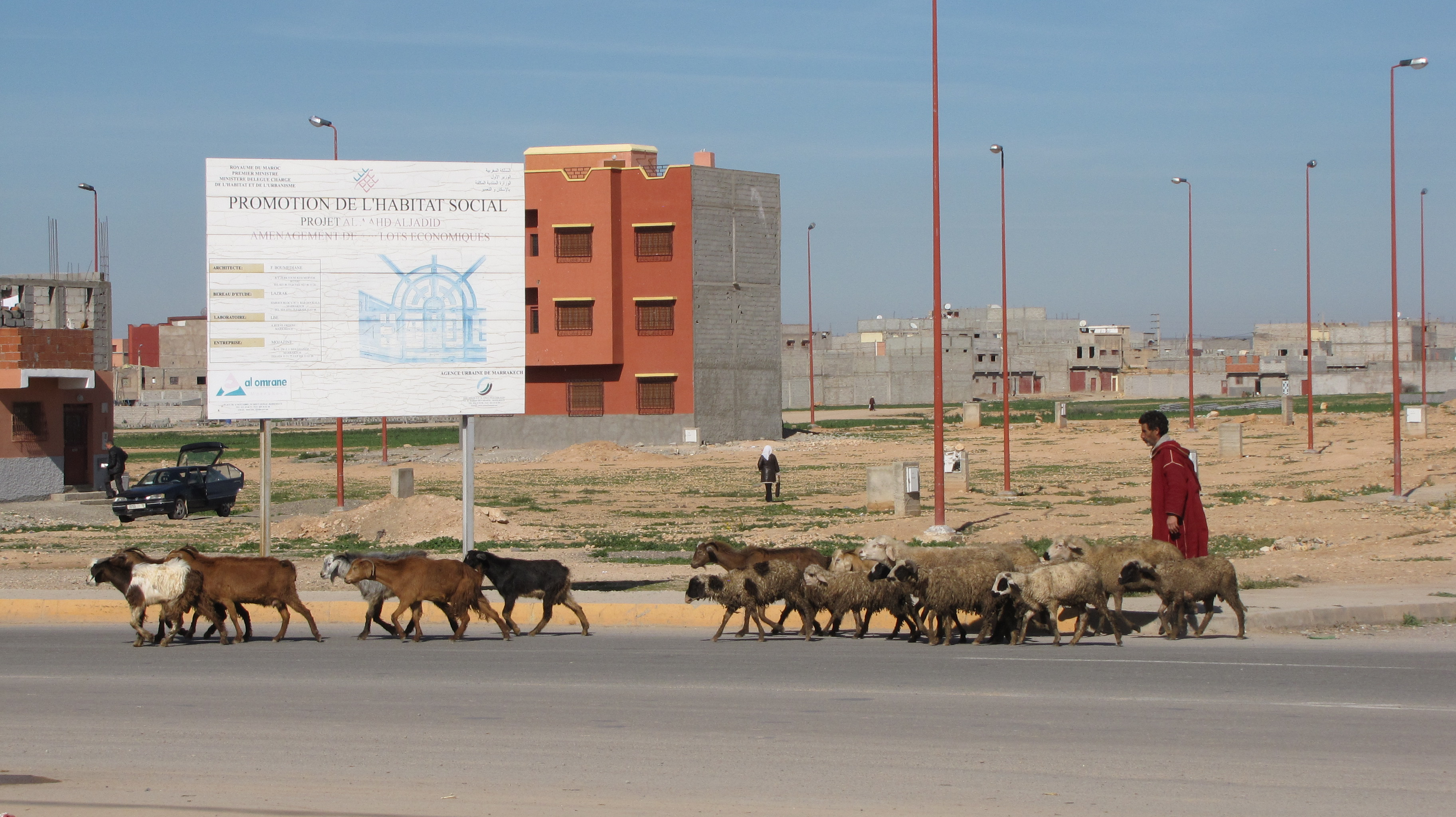 A shepherd with his sheep and goats in small Moroccan town Sid L'Mokhtar in Chichaoua Province, Marrakech-Tensift-Al Haouz region.